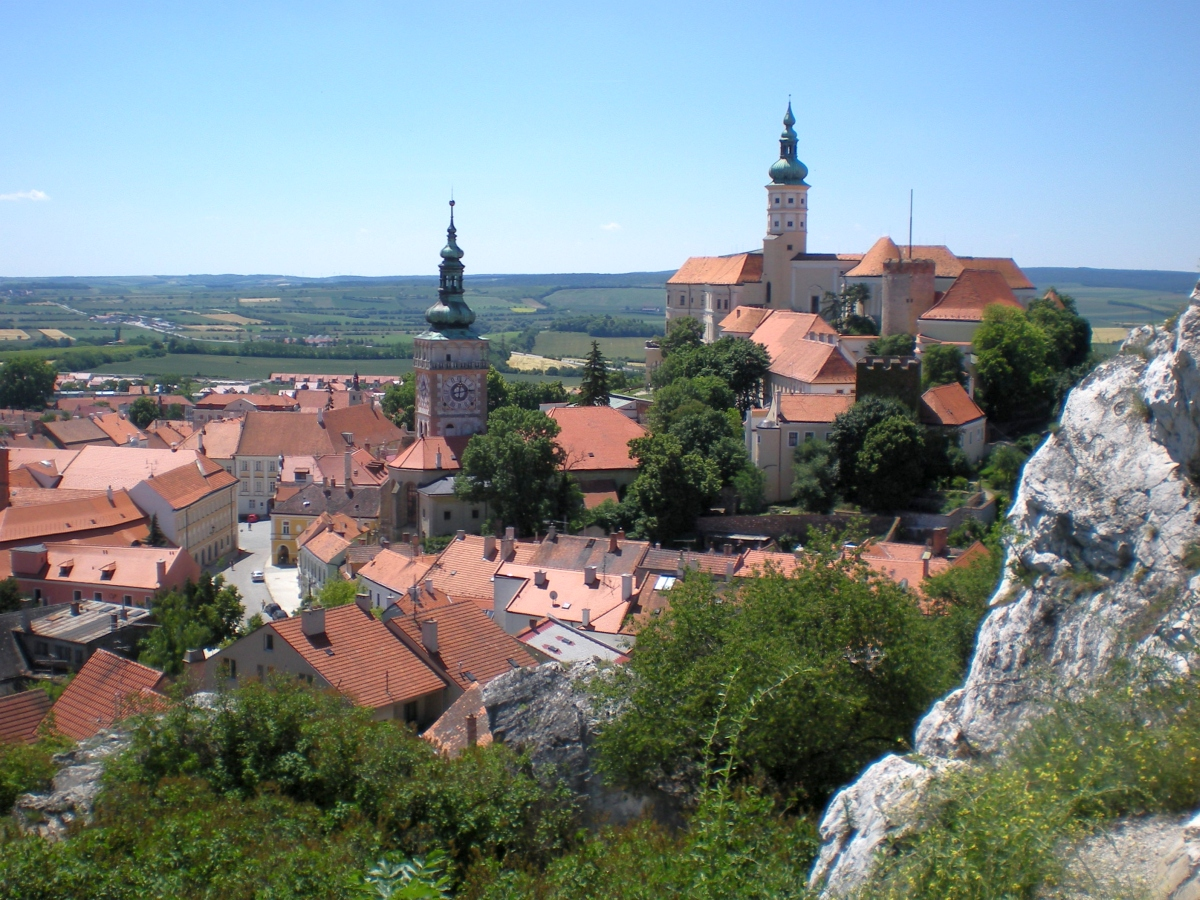 Mikulov - old town center and castle.